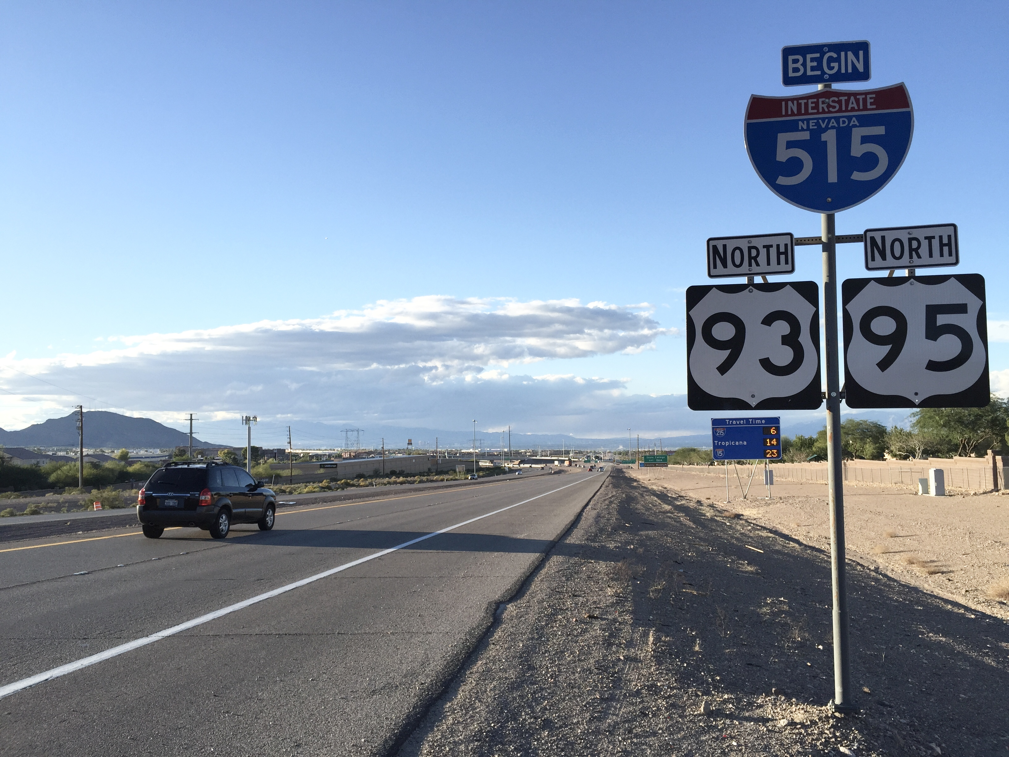 View north along U.S. Routes 93 and 95 at the south end of Interstate 515 in Henderson, Nevada